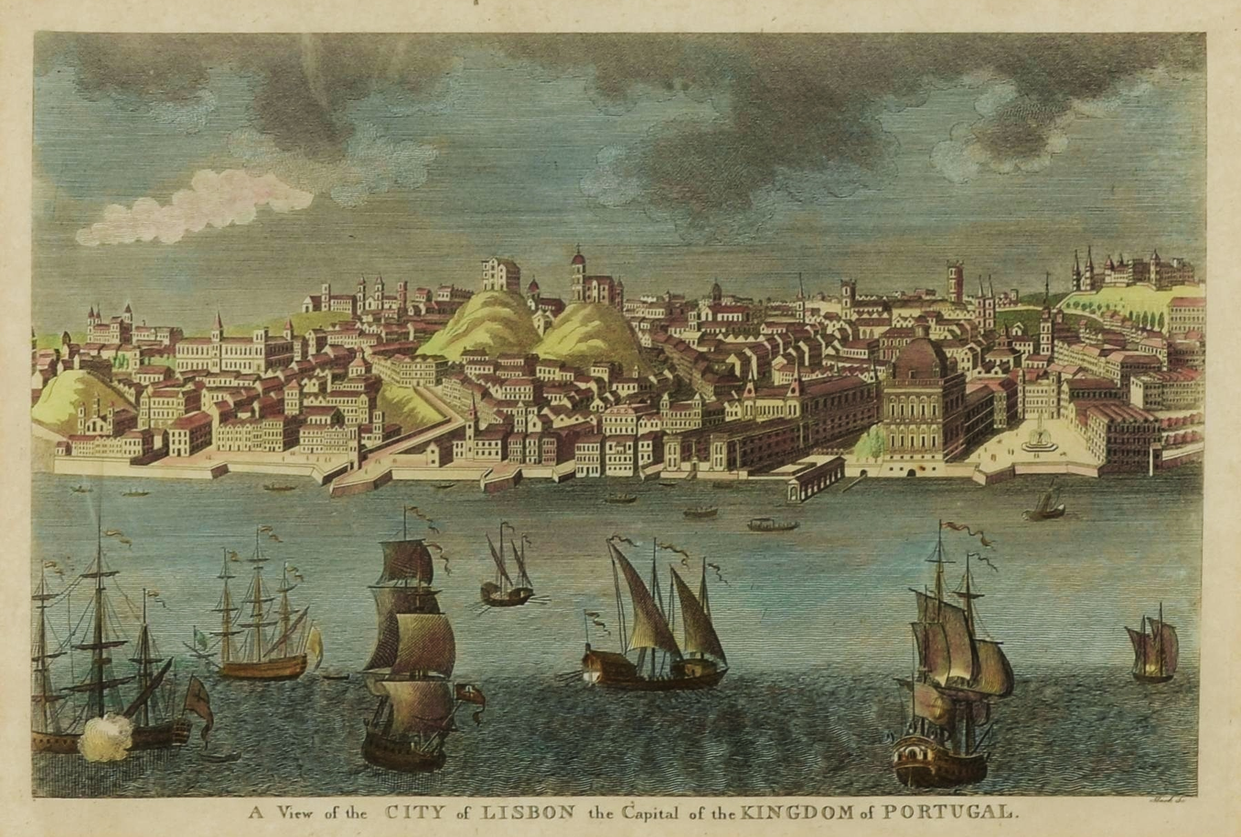 A View of the City of Lisbon the Capital of the Kingdom of Portugal, 18th-century English lithograph.